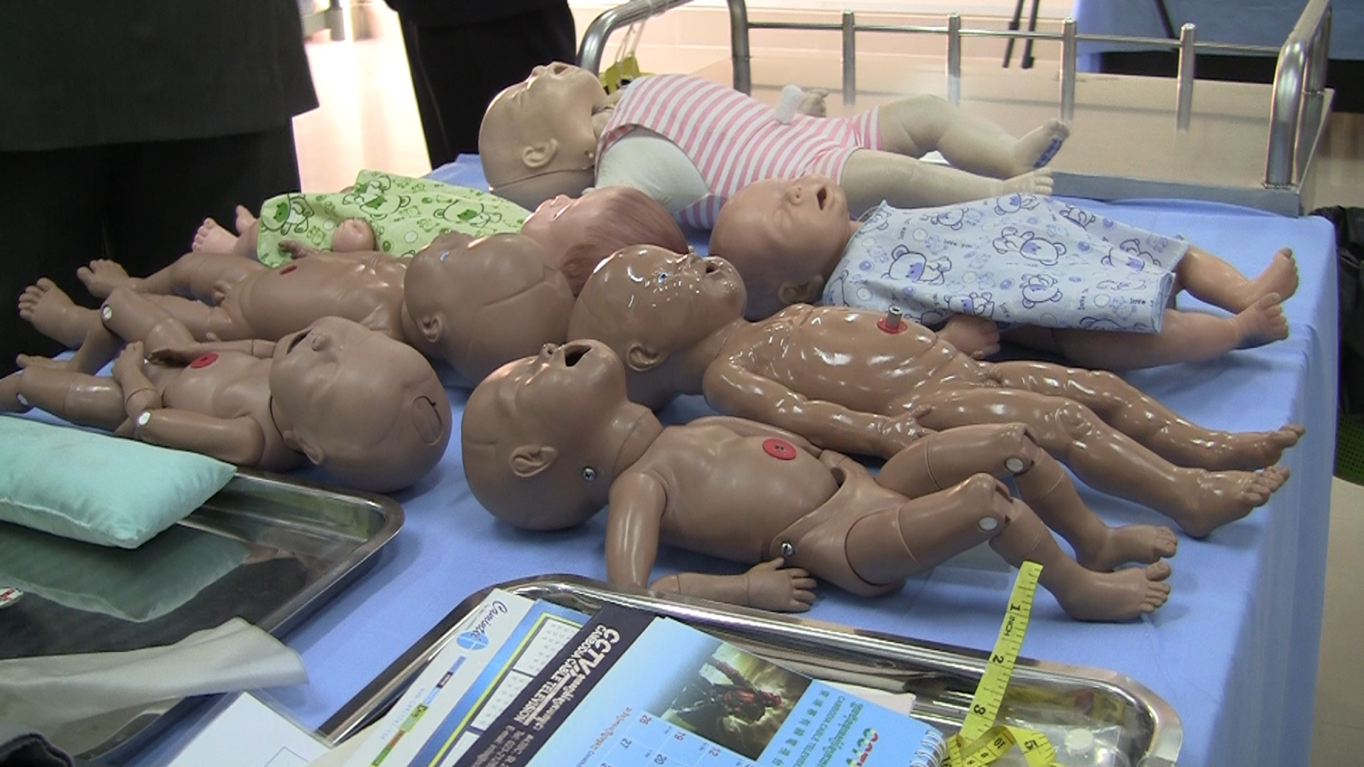 Australian-funded Cambodian Midwife Project at the Technical School for Medical Care in Phnom Penh. Photo: Christoffe Gargiulo